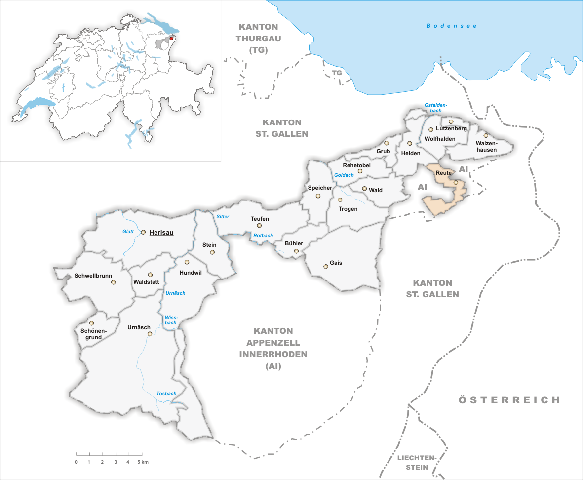 Municipality of Reute